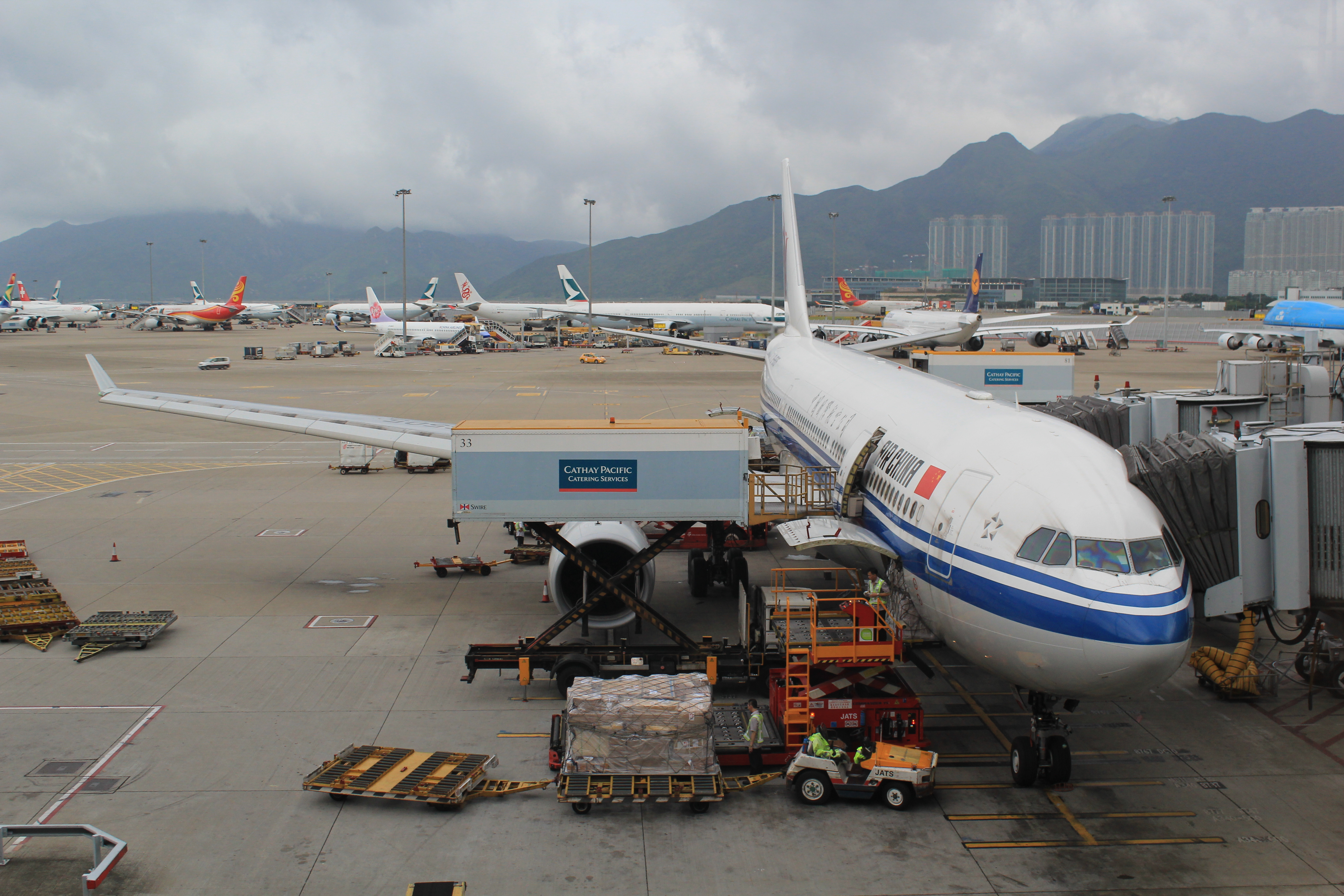 Air China's Airbus A330 aircraft being serviced by a Cathay Pacific Catering Services catering truck while parked at gate at Hong Kong International Airport.